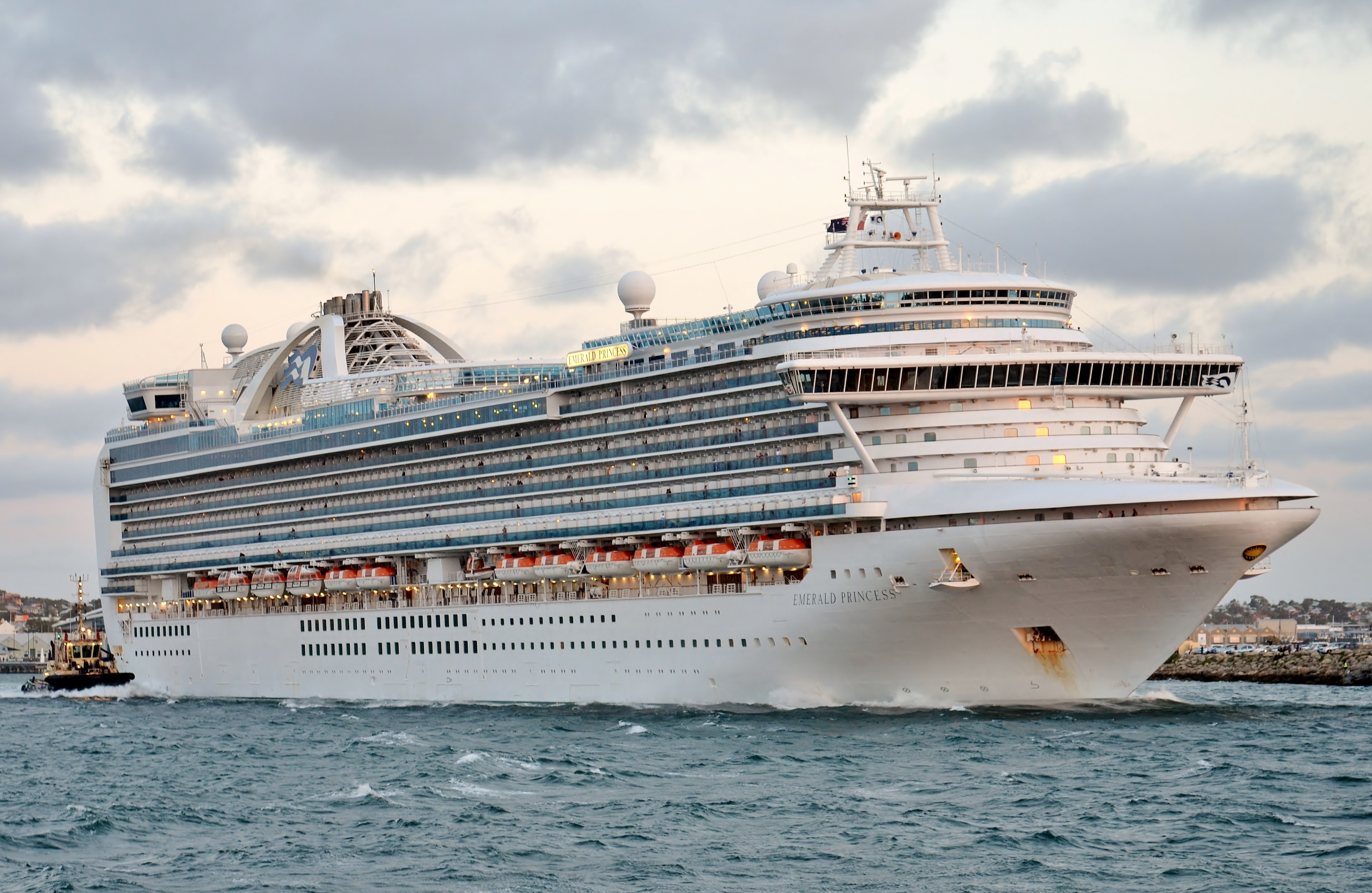 Cruise ship Emerald Princess departing from Fremantle Harbour, Western Australia, on voyage E634A, her maiden cruise as an Australian-based ship, to Sydney via Busselton (Margaret River) and Melbourne.